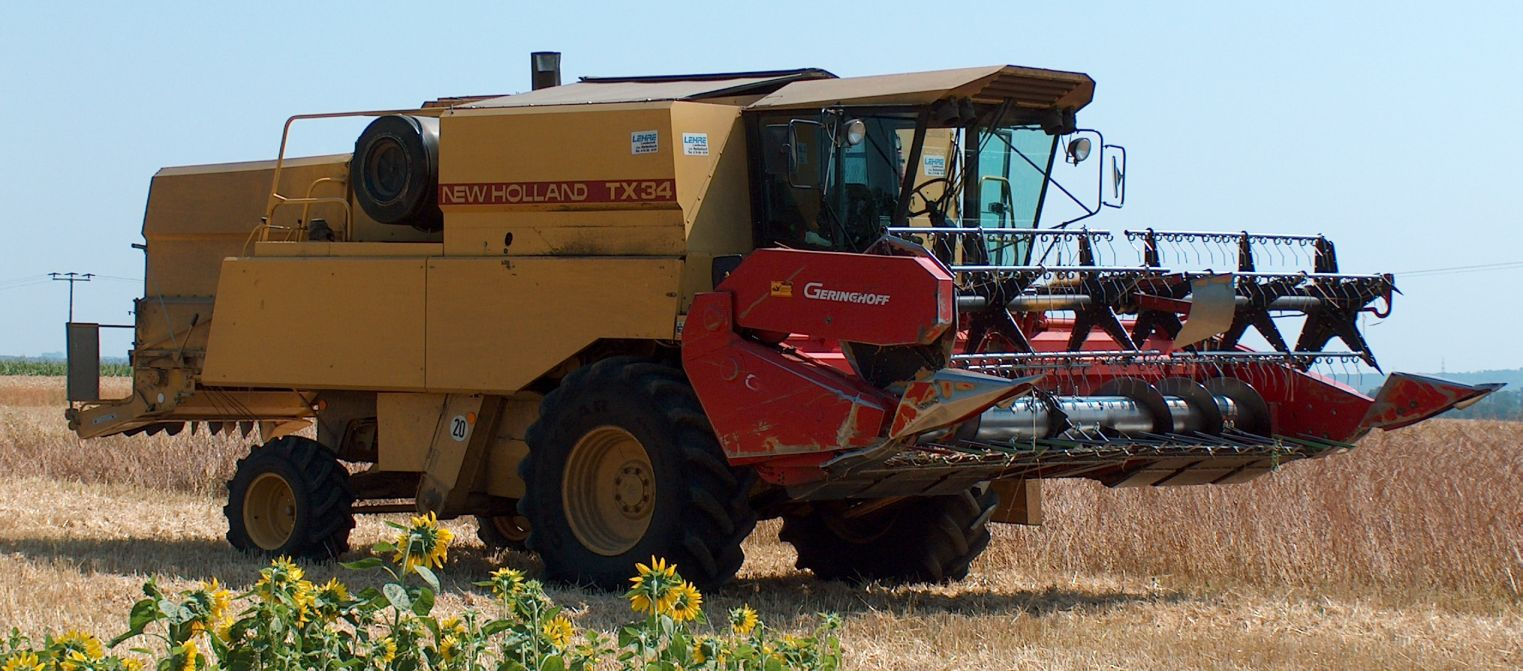 Combine harvester, New Holland TX-34 with Geringhoff header